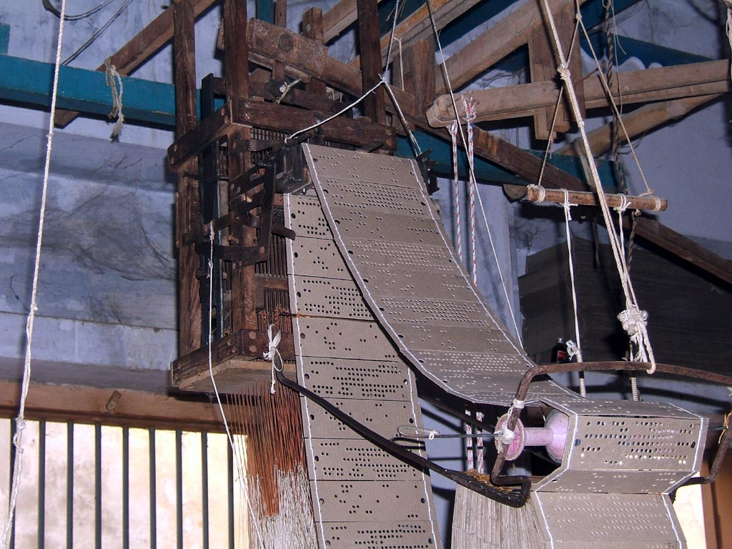 Punched card loom mechanism in silk weaving workshop; Varanasi, Uttar Pradesh, India.